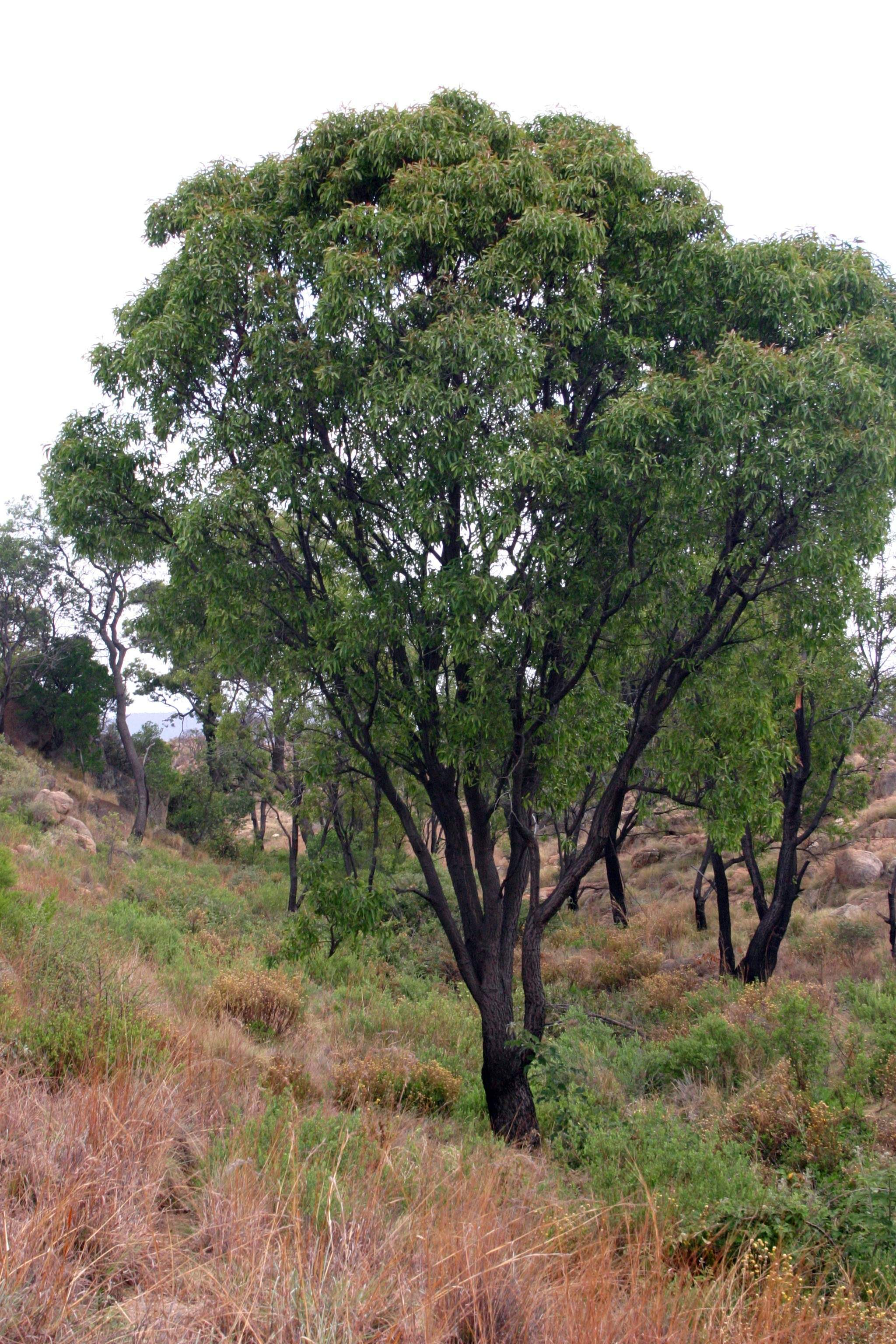 Faurea saligna Harv., Magaliesberg, South Africa